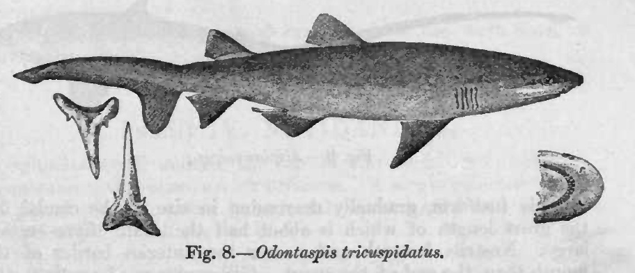 Indian Sand Tiger